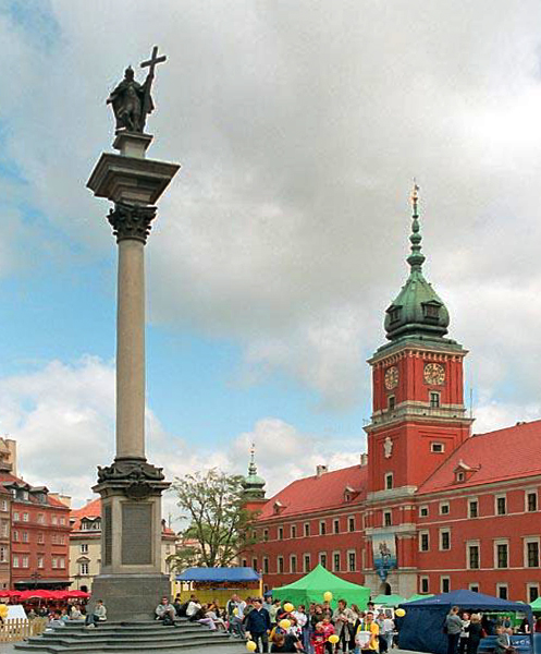 Kolumna Zygmunta is erected. Warsaw, Poland.